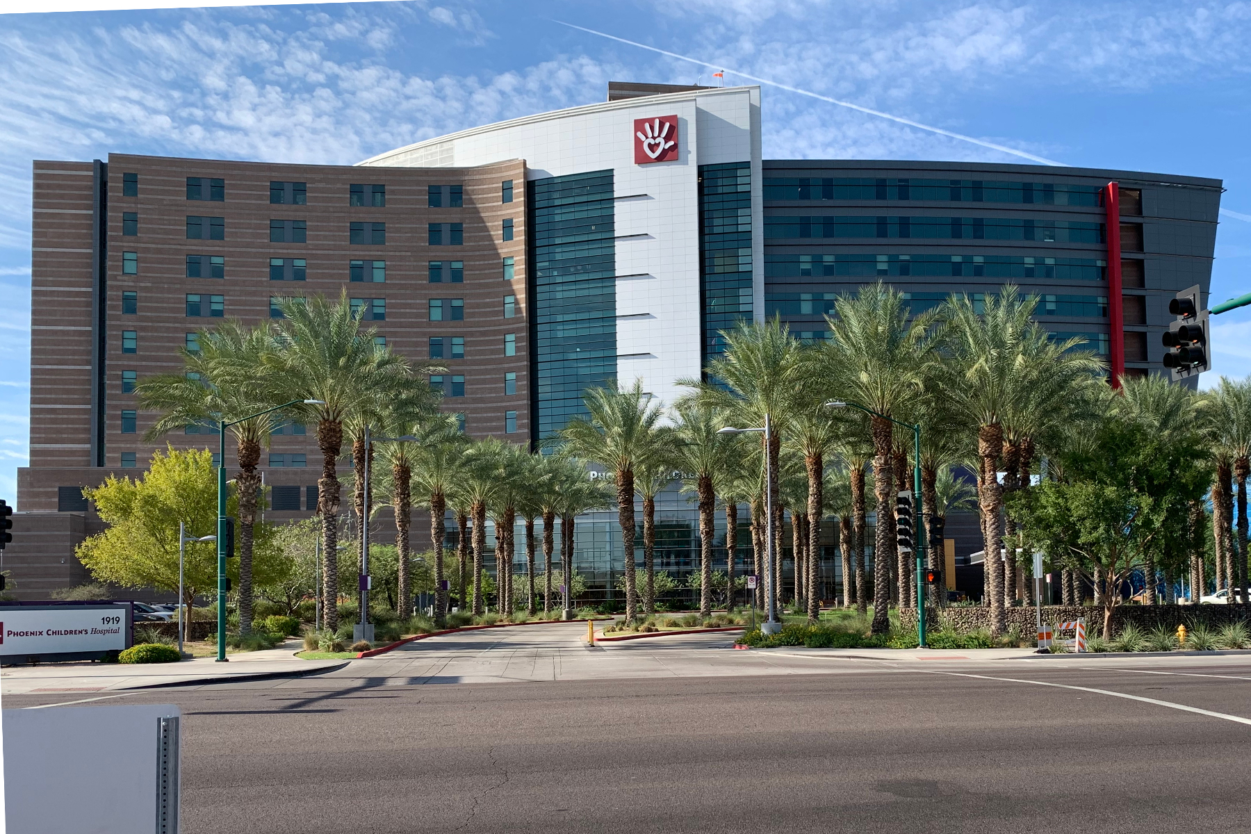 Phoenix Children's Hospital, Thomas Road, Phoenix AZ